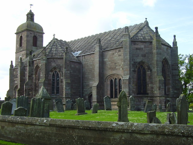 Ladykirk (church of Scotland) Church Ancient Kirk near the left bank of the River Tweed.